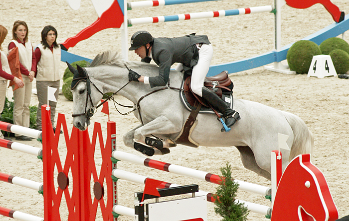 Kevin Staut et Silvana*HDC lors du Saut Hermès au Grand Palais à Paris (mars 2012).